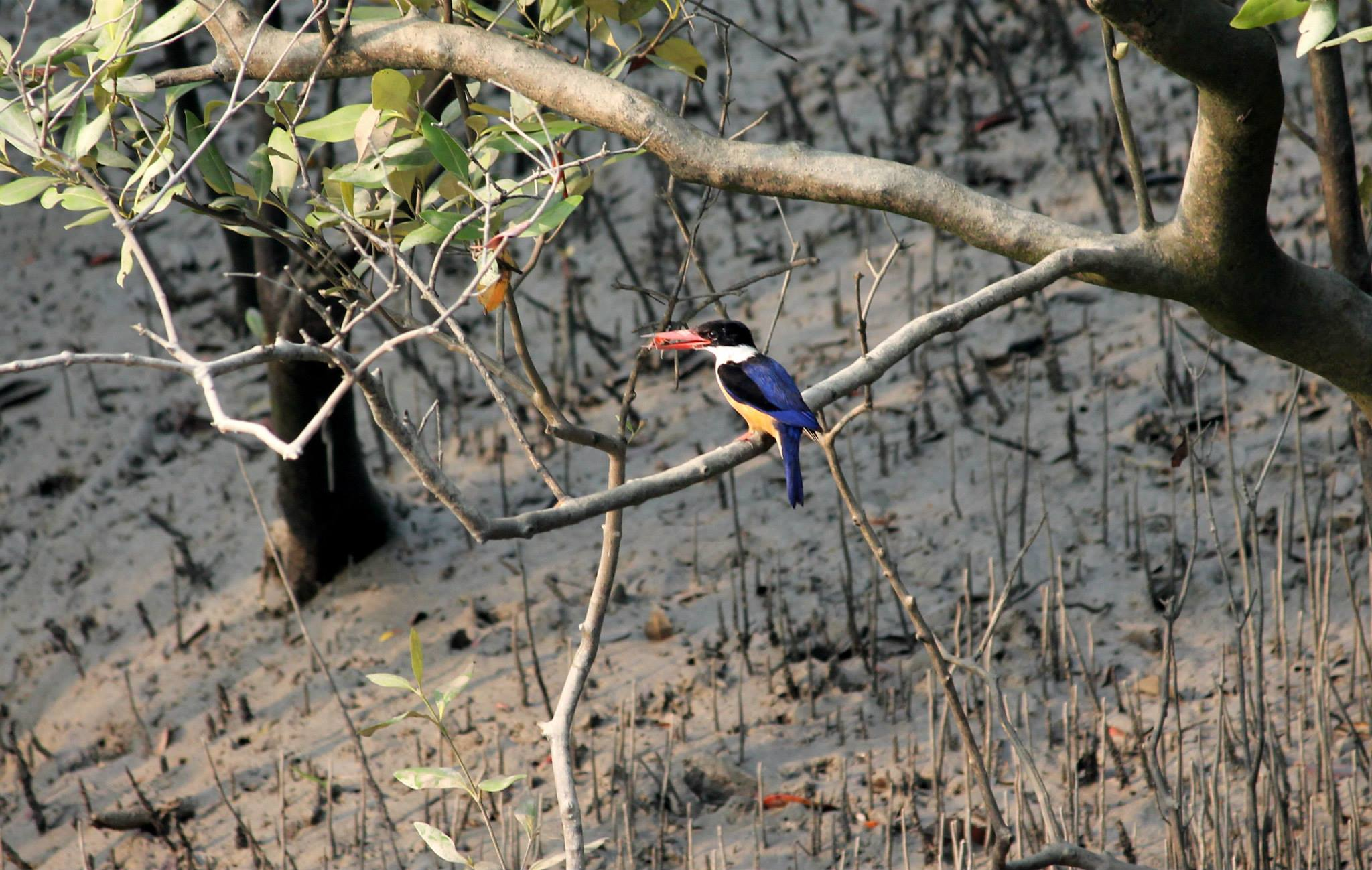 Kingfisher at Sunderbans